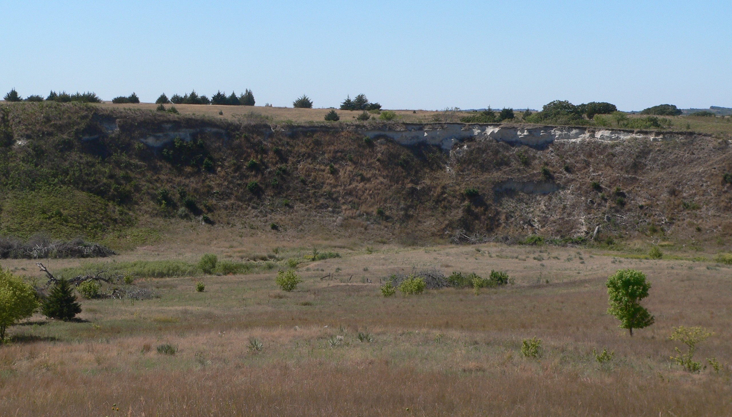 Ashfall Fossil Beds in Antelope County, Nebraska: view across Colson Creek valley. According to a sign at this overlook, the light-colored horizontal layer near the top of the steep bank is the Ash Hollow Formation; the ash bed is at the bottom of this layer.